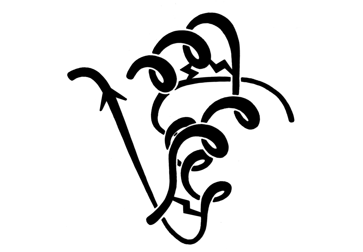 Insulin monomer "worm" drawing, from PDB file 1INS.